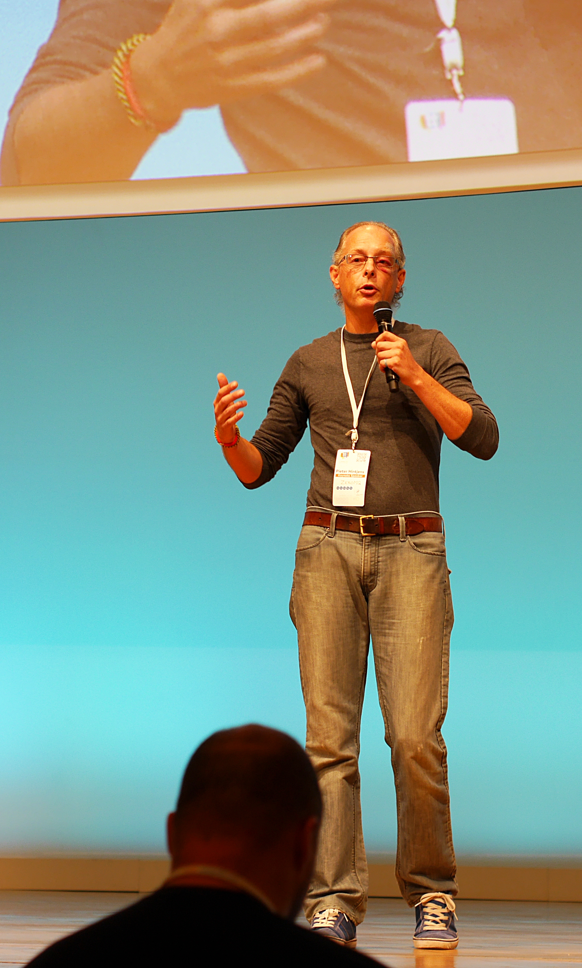 Pieter Hintjens at the EuroPython conference in Berlin